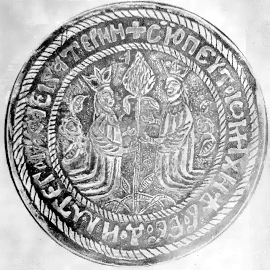 Mihnea Turcitul (right) and his mother (left)